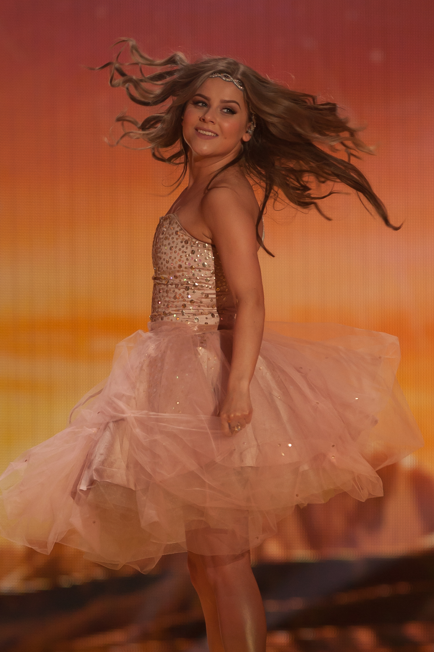 Eurovision Song Contest Vienna 2015: Maria Olafs